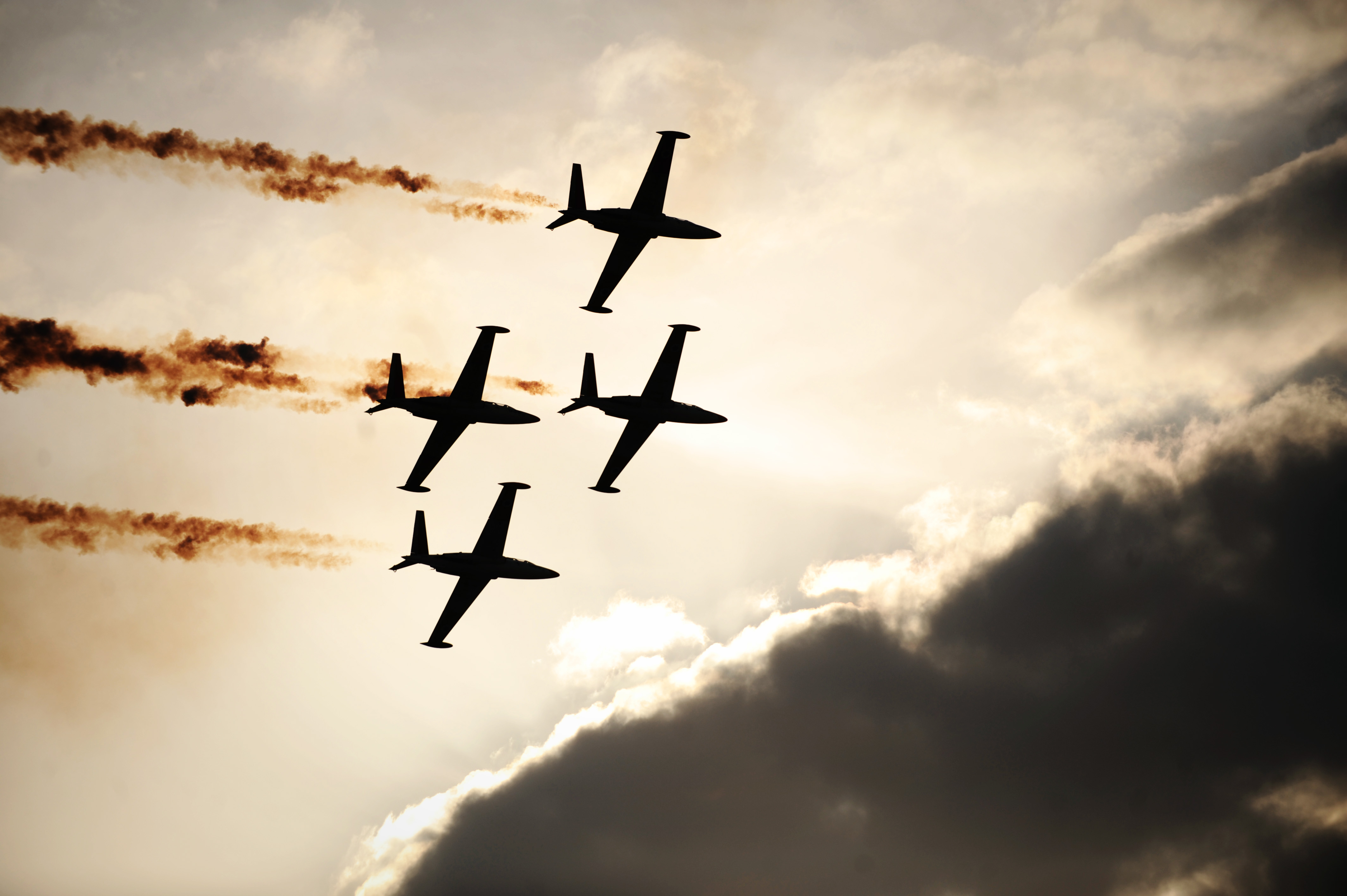 December 29, 2009 During the winter graduation ceremony of the Flight School, aircraft from the Israeli Air Force demonstrate their jarring synchronization abilities during flight. The Israeli Air Force Flight School has a graduation ceremony for the new pilots twice a year, once during the summer and once during the winter. During the ceremony, the new pilots along with their friends and family, as well as other IDF officers are treated to an air show depicting the impressive technological, precision, and synchronization techniques used by current and reserve pilots in the IAF.